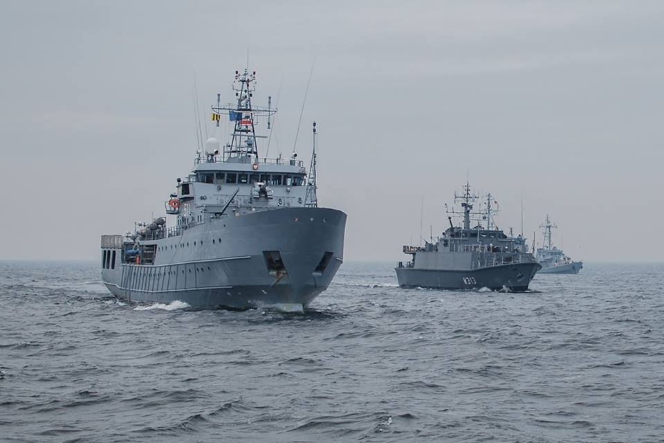 The Standing NATO Mine Countermeasures Group One during transit to the operations area. For the duration of this exercise the Group is comprised of the command ship ORP Czernicki (Poland) and seven minehunters (Belgium, Great Britain, Estonia, Germany, Netherlands, Norway, and Poland). Exercise Steadfast Jazz 2013 is taking place from 1-9 November in a number of Alliance nations including the Baltic States and Poland. The purpose of the exercise is to train and test the NATO Response Force, a highly ready and technologically advanced multinational force made up of land, air, maritime and special forces components that the Alliance can deploy quickly wherever needed. The Steadfast series of exercises are part of NATO’s efforts to maintain connected and interoperable forces at a high-level of readiness.